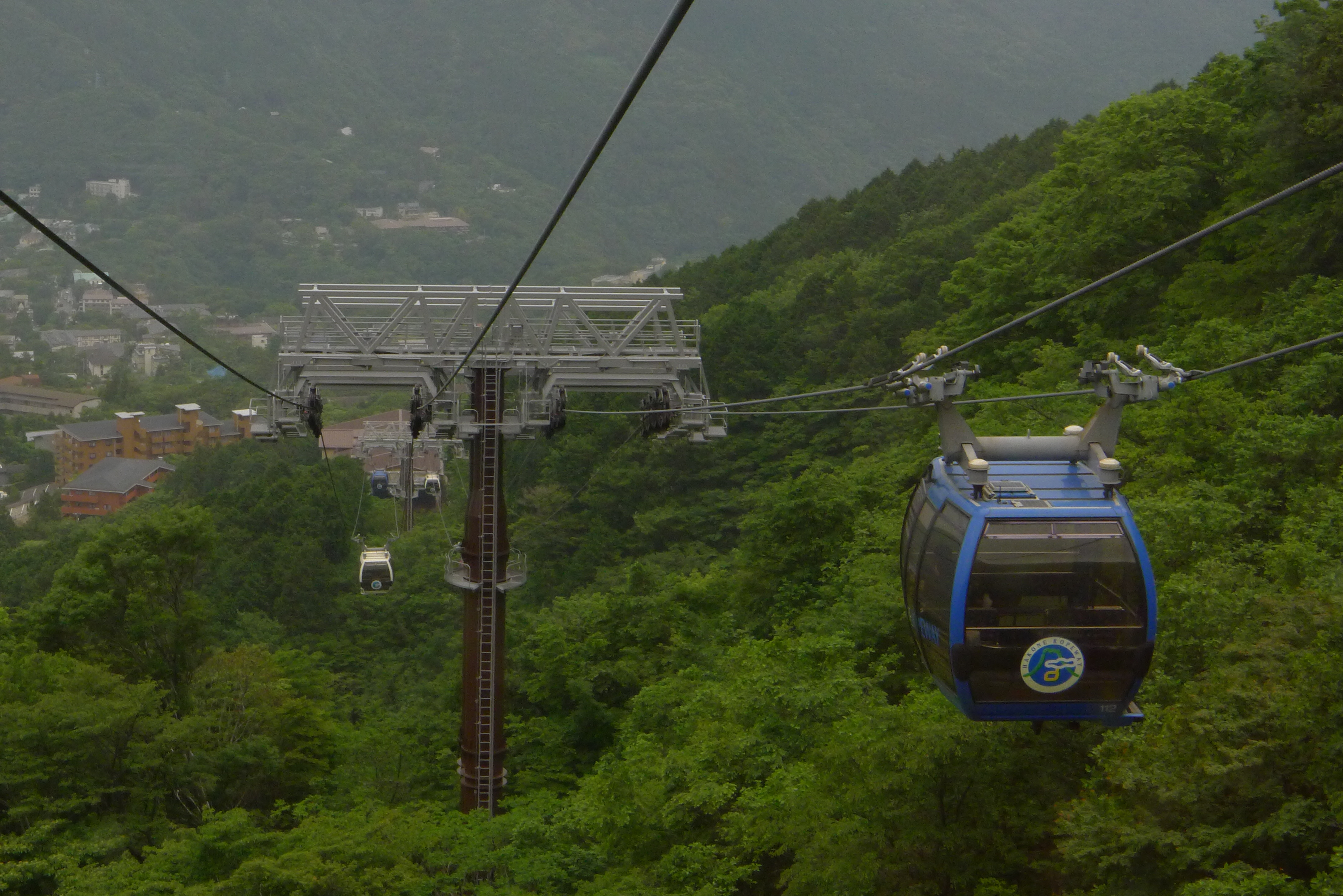 Hakone Ropeway between Sōunzan and Ōwakudani